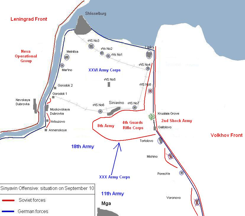 Frontline during the Sinyavino offensive on September 10, 1942 The information of troops positions and advance based on Glantz (2004).